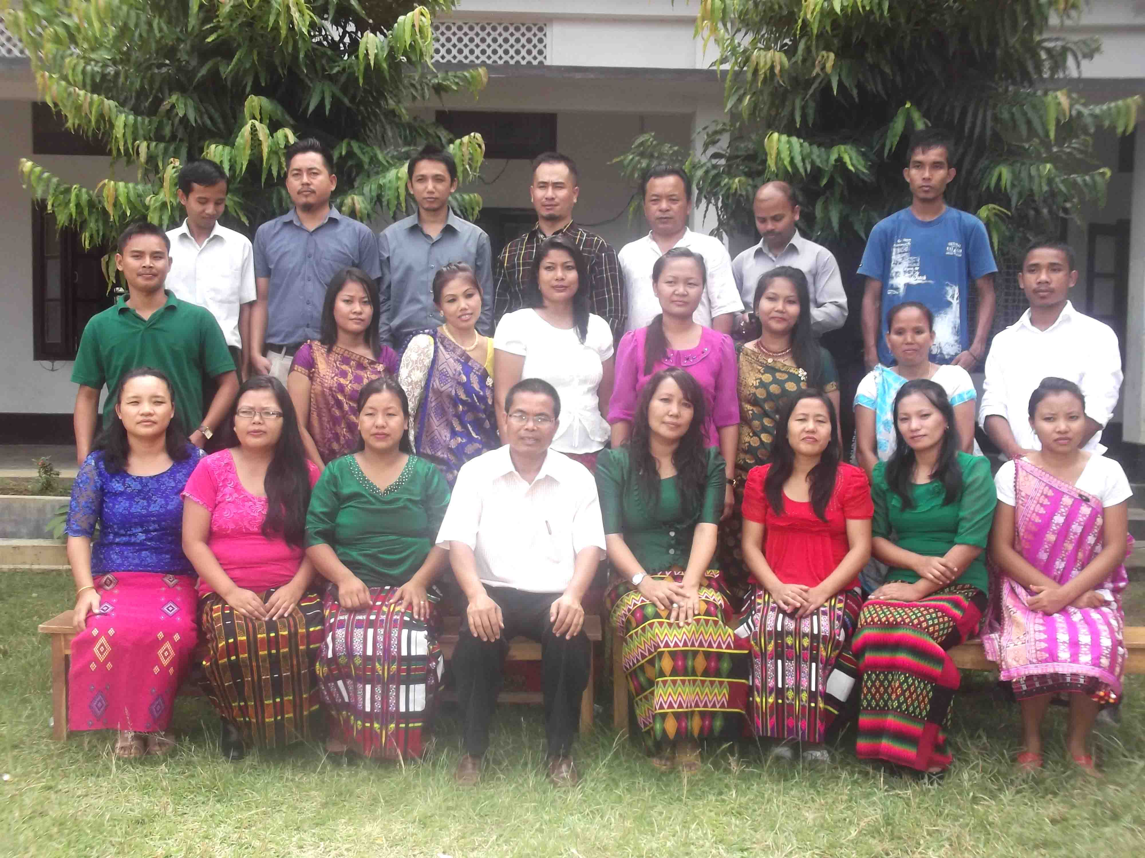 Suraj Van Verma Photographs